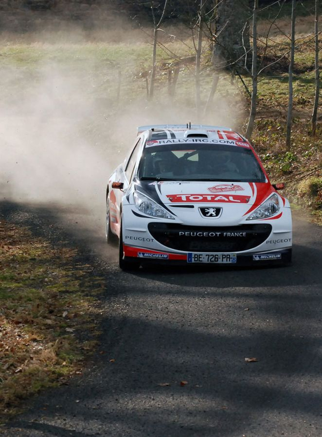 Bouffier-Panseri winner of Rallye de Monte-Carlo 2011